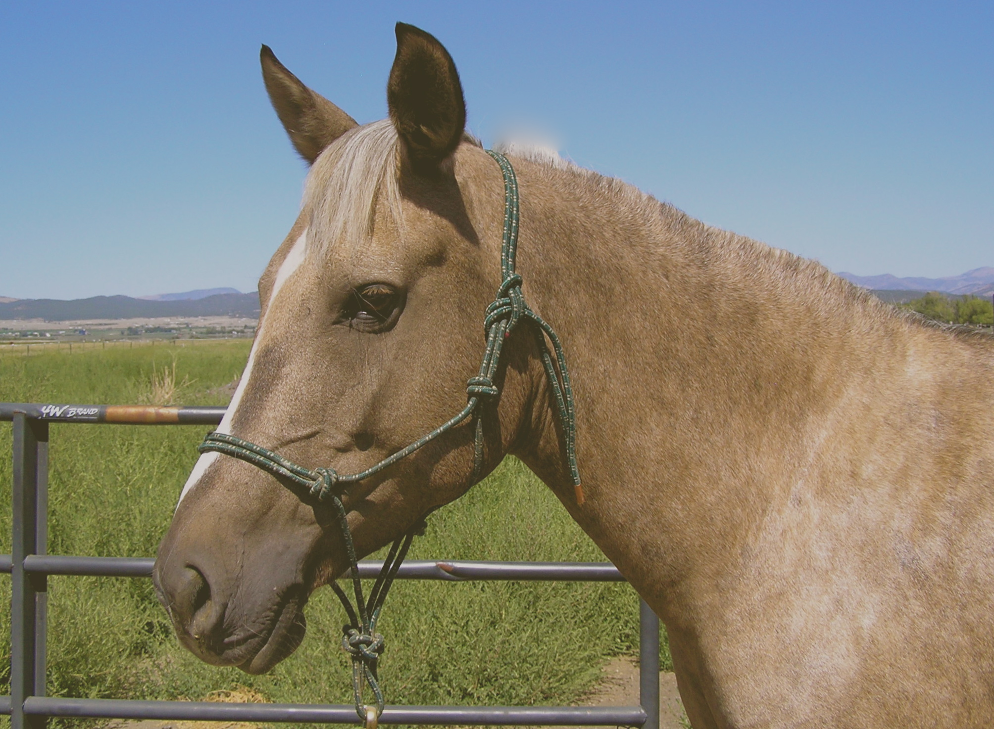 A rope halter shown properly fitted on a horse.